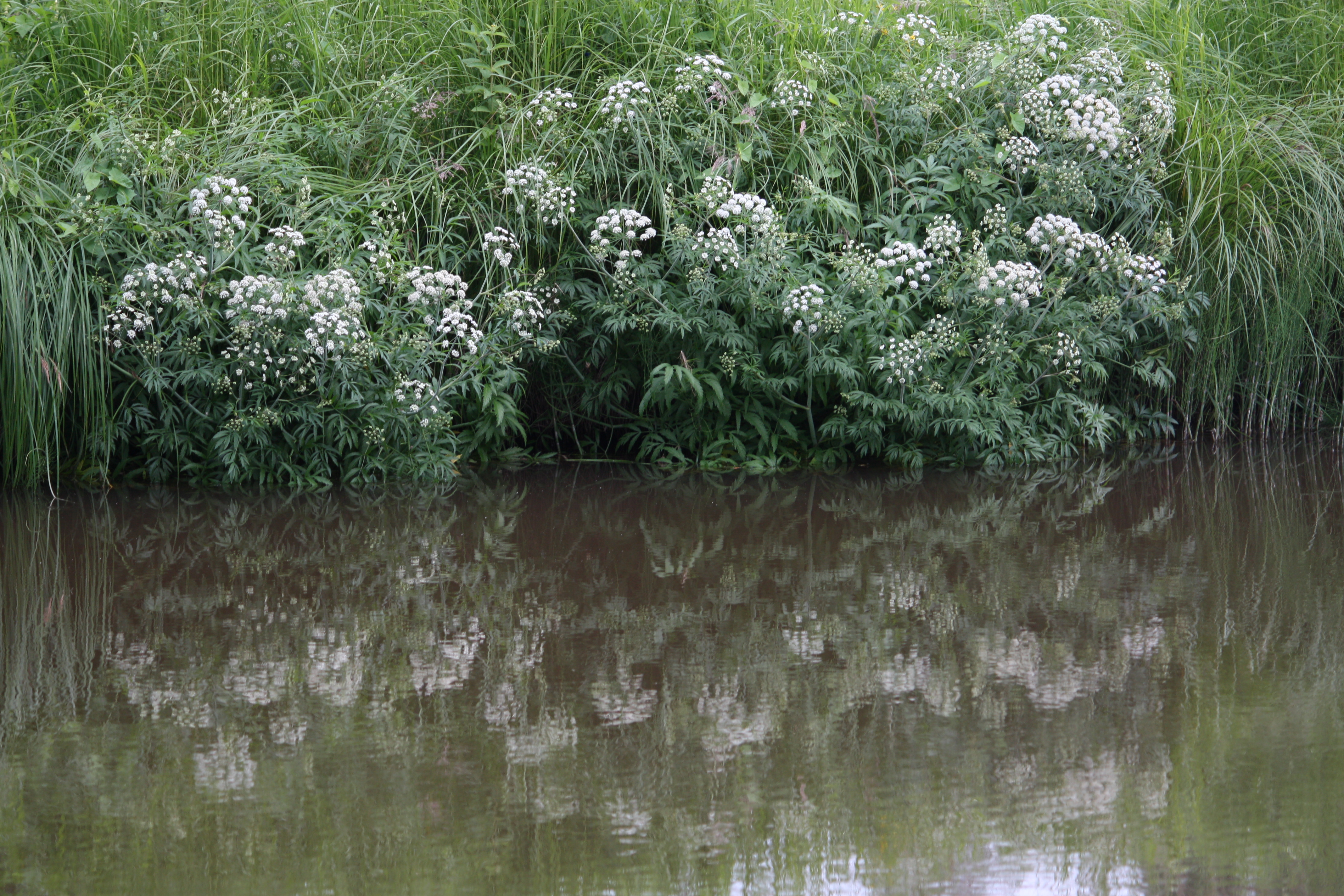 Cowbane or Northern Water Hemlock (Cicuta virosa) is growing by Keravanjoki river in Kerava, Finland.